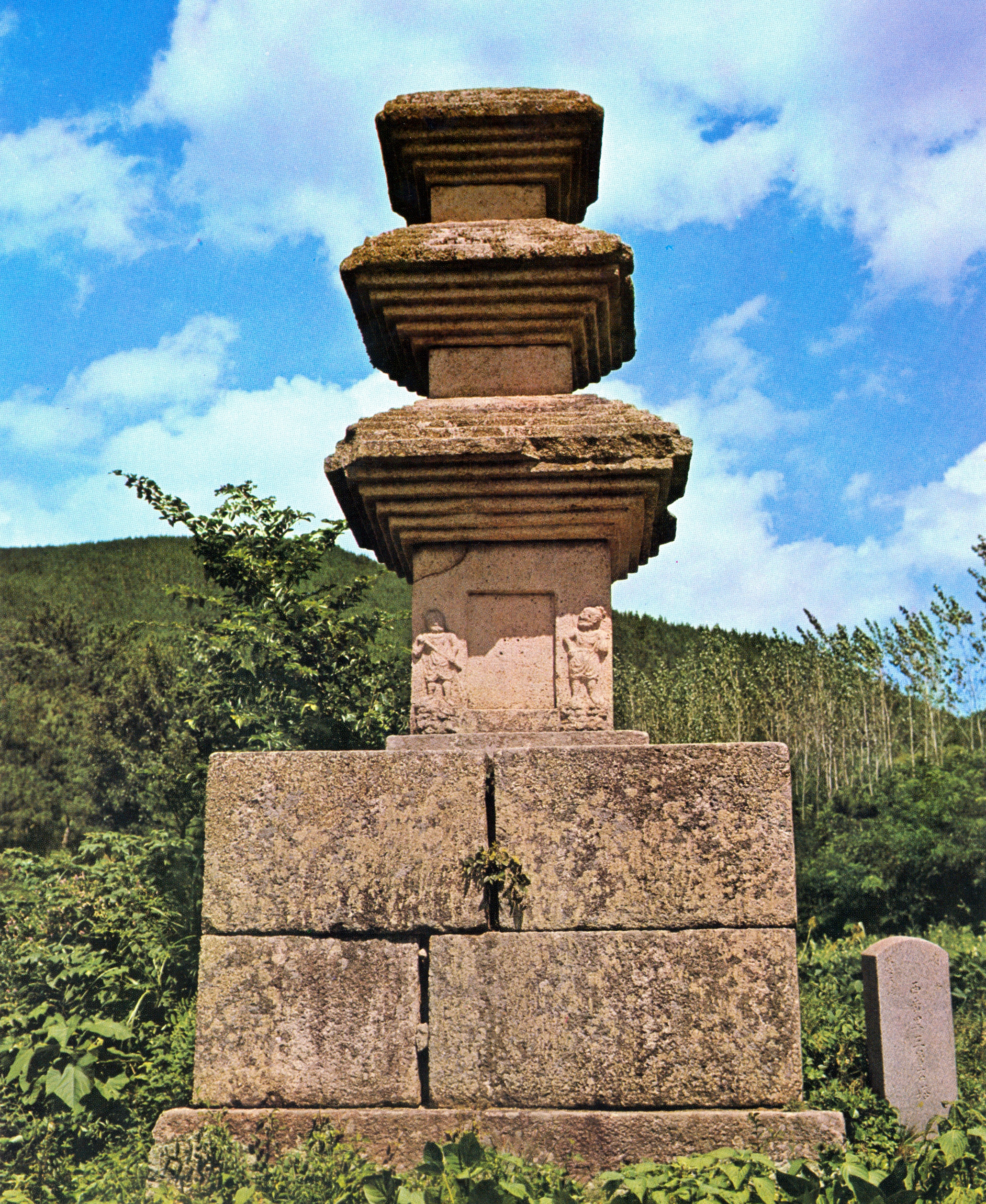 Three-story Stone Pagodas at Seoak-dong in Gyeongu, Korea